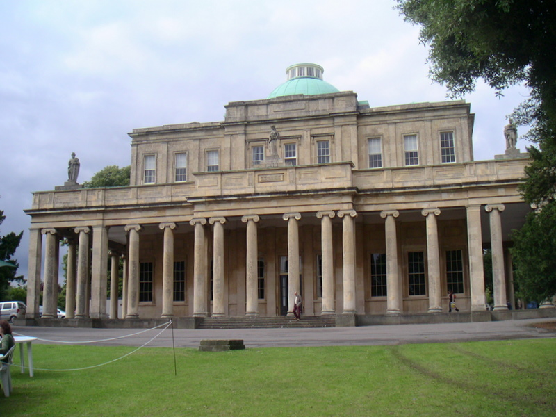 photof of Pittville Pump Room